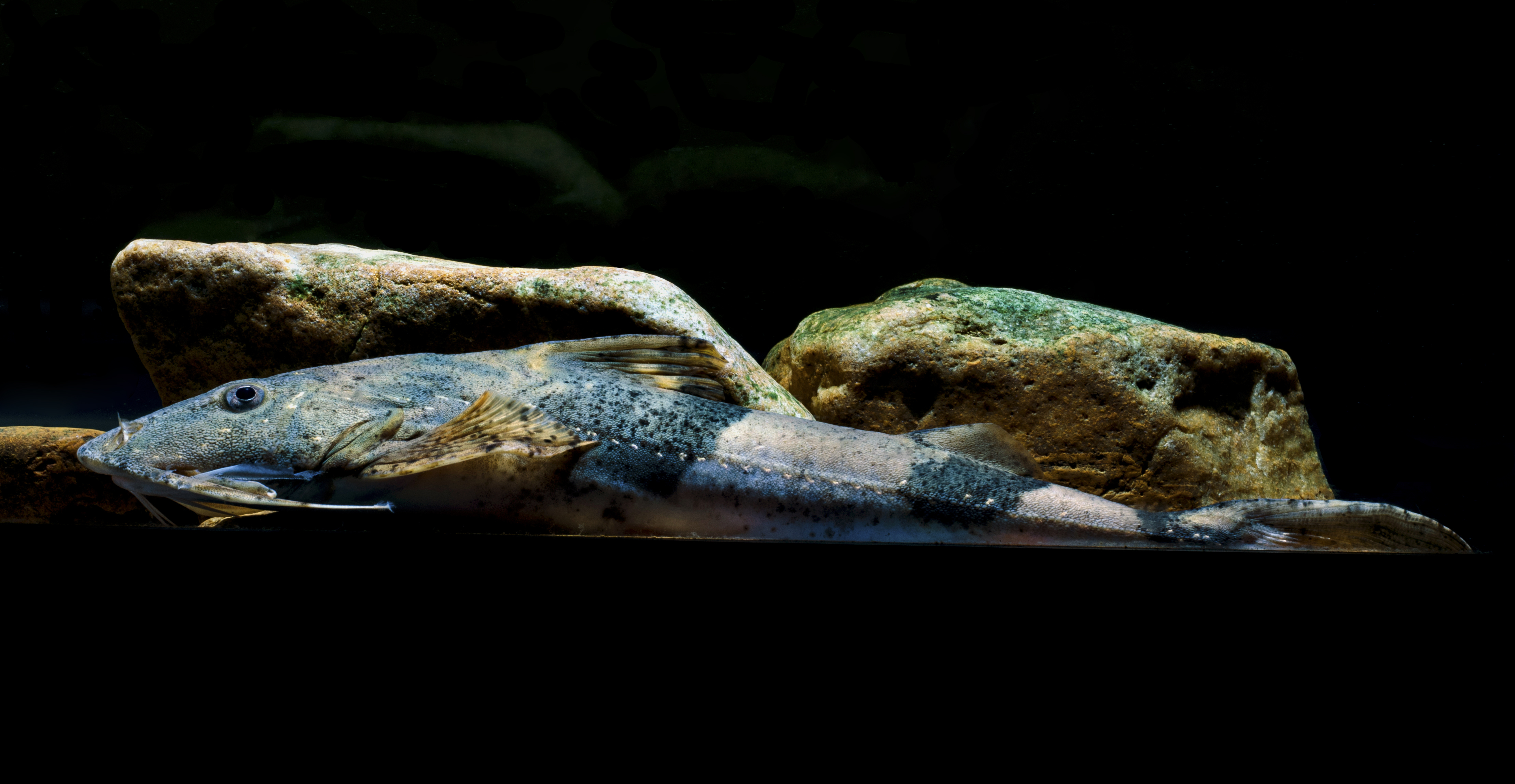 Dottie the Bagarius rutilus at about ten inches. She is a subadult specimen still and some of her adult characteristics haven't fully developed yet. Still clearly visible are the diagnostic orange-yellow fins and oval eyes.